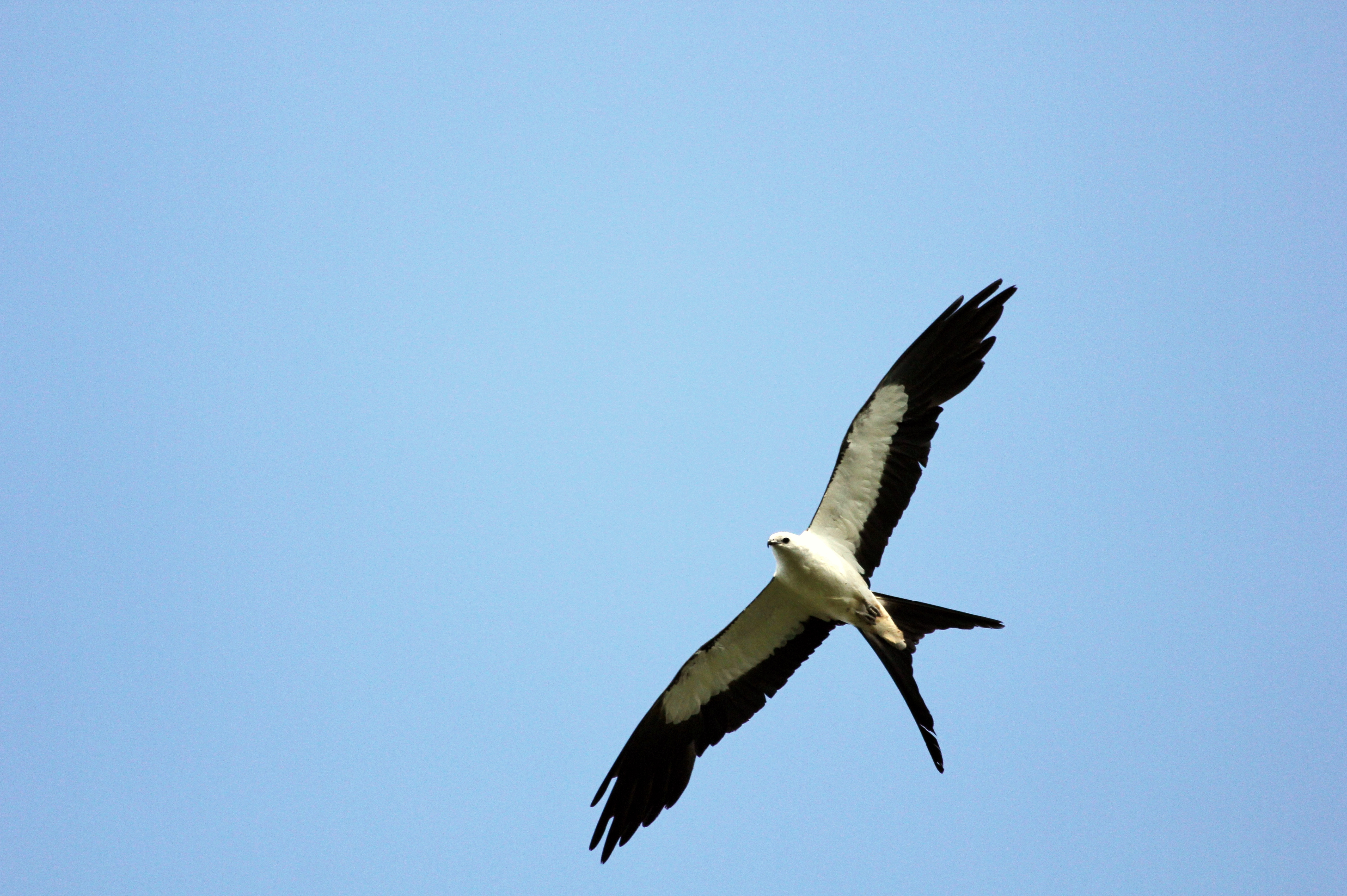 A Swallow-tailed Kite flying in Florida, USA.